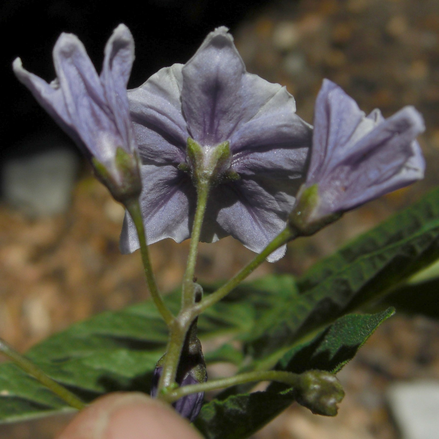 Solanum etuberosa 20081208.23 Parque Nacional Huerquehue, Chile This is apparently closely related to the ancestor of the cultivated potato, S. tuberosa(?) This particular specimen was almost a small shrub. The "interrupted pinnate" leaves are quite distinctive.